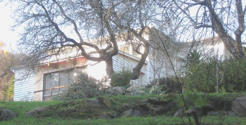 Dame Ngaio Marsh's house in Cashmere, Christchurch, New Zealand